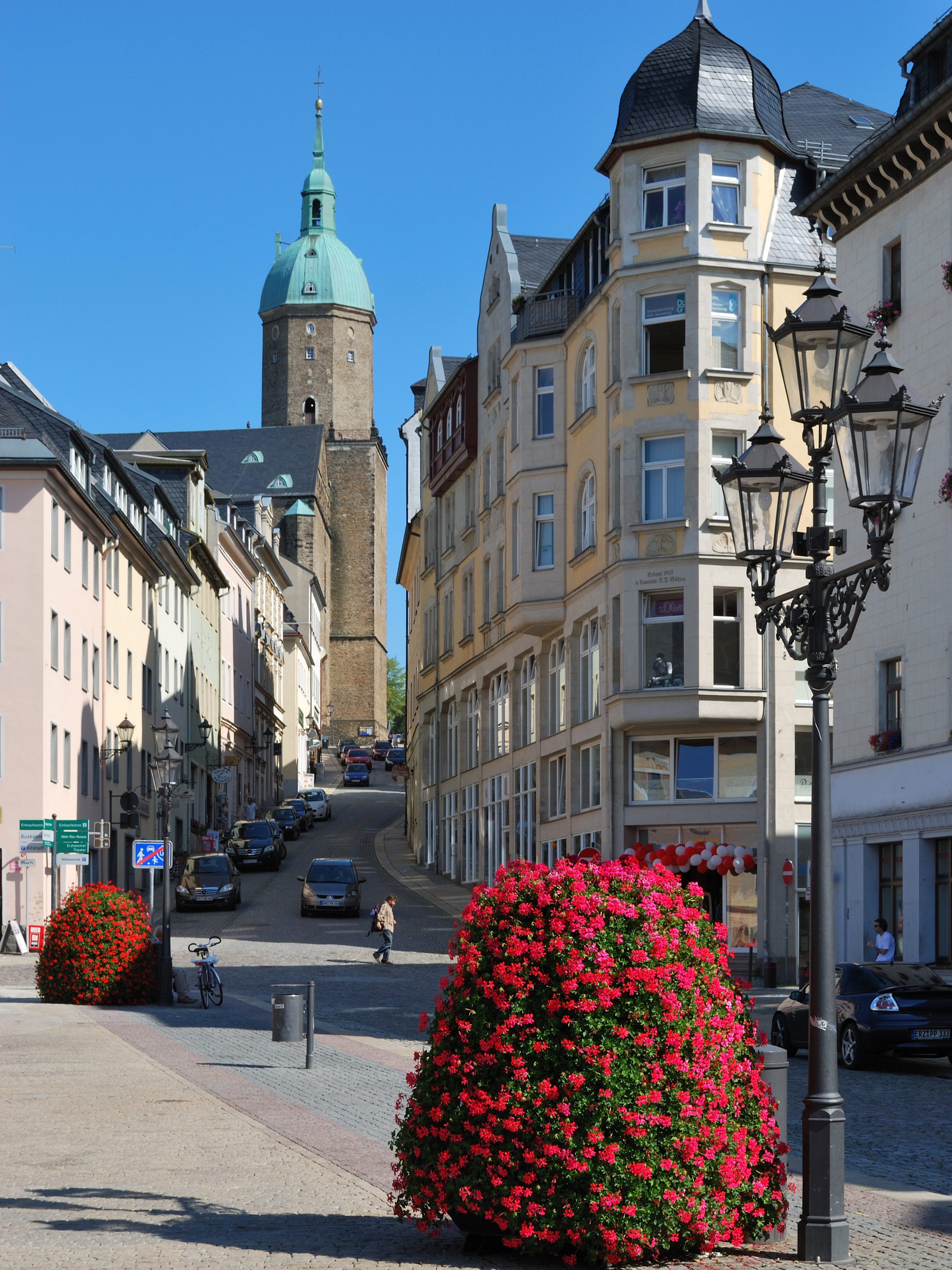 St. Annenkirche in Annaberg-Buchholz in Saxony in Germany.